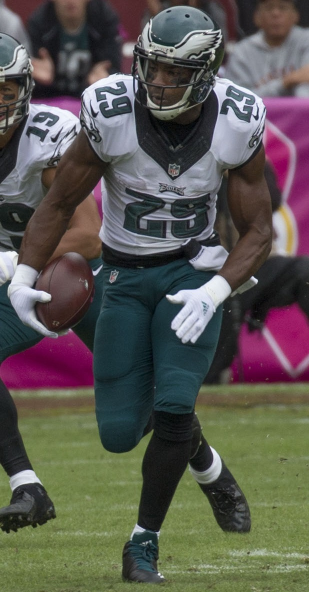 Eagles at Redskins 10/04/15